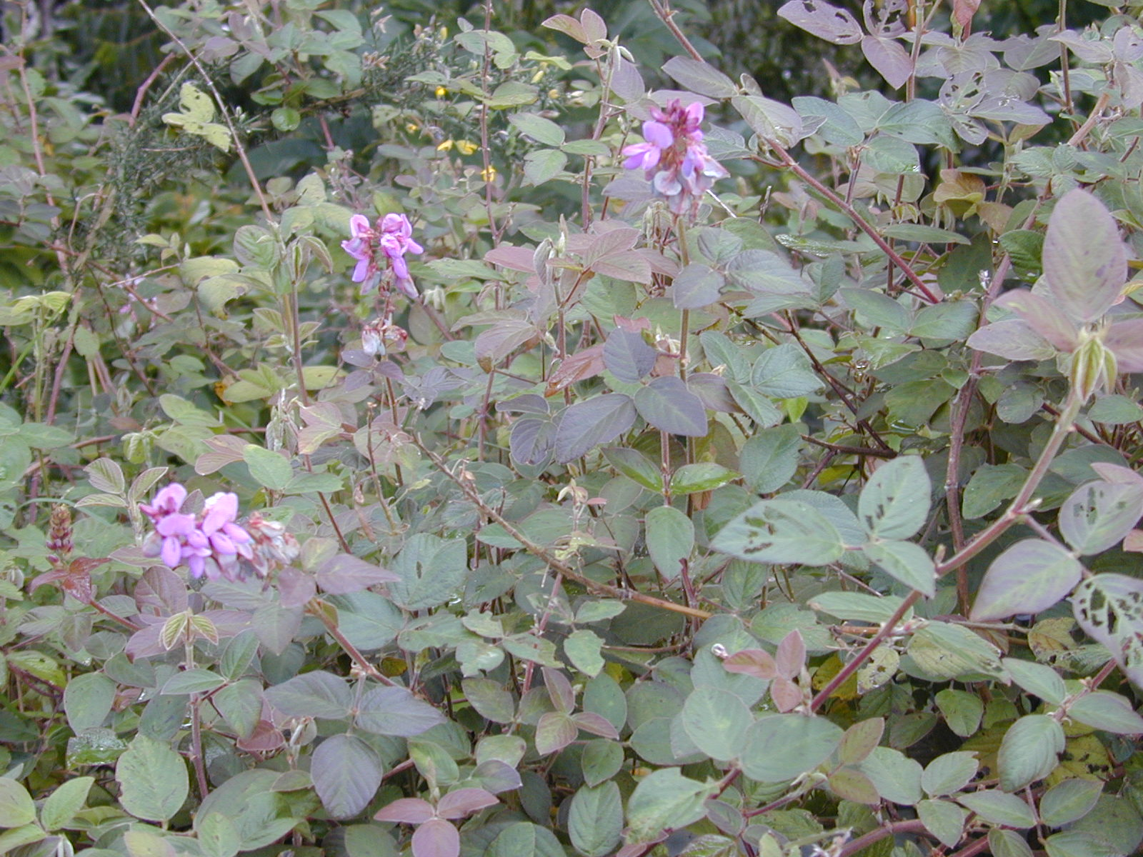 Desmodium intortum (flowers and leaves). Location: Maui, Makawao Forest Reserve